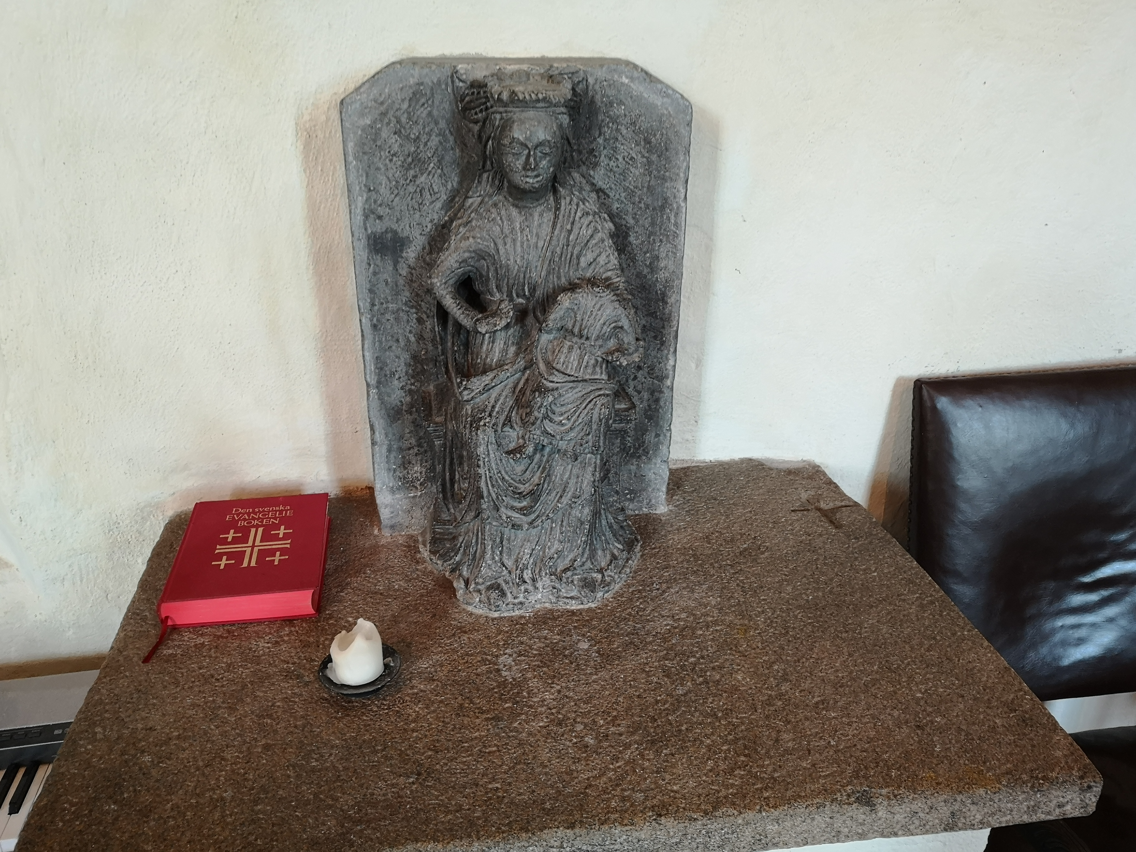 Rare historic statue in Swedish church. Black madonna photographed in the the village Skee near Stömstad 12th century church. The child is beheaded but it is not obvious if thee has been a head from the beginning. Also the face of the woman has scars as if she has had sufferings...